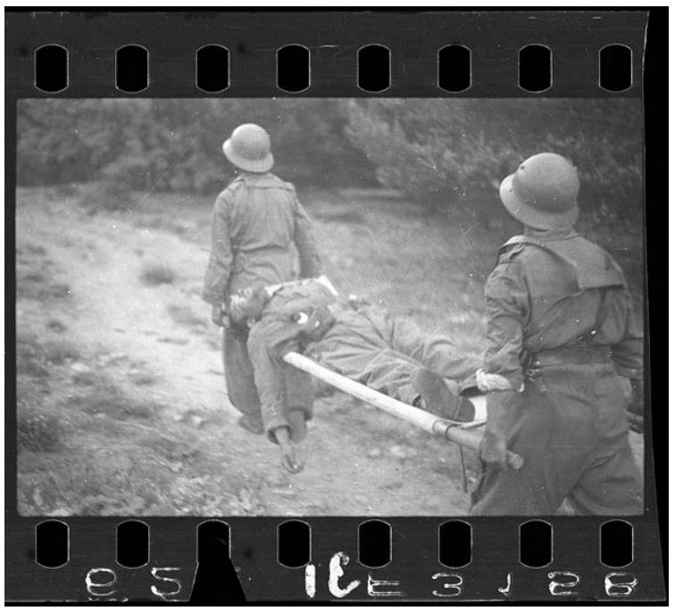 A 1937 image by Ms. Taro of Republican soldiers at the Navacerrada Pass in Spain